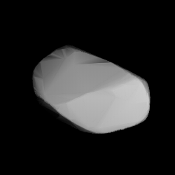 3D convex shape model of 1400 Tirela, computed using light curve inversion techniques. J. Hanuš, J. Ďurech, M. Brož, B. D. Warner (June 2011). "A study of asteroid pole-latitude distribution based on an extended set of shape models derived by the lightcurve inversion method". Astronomy and Astrophysics 530: A134. ISSN 0004-6361. arXiv